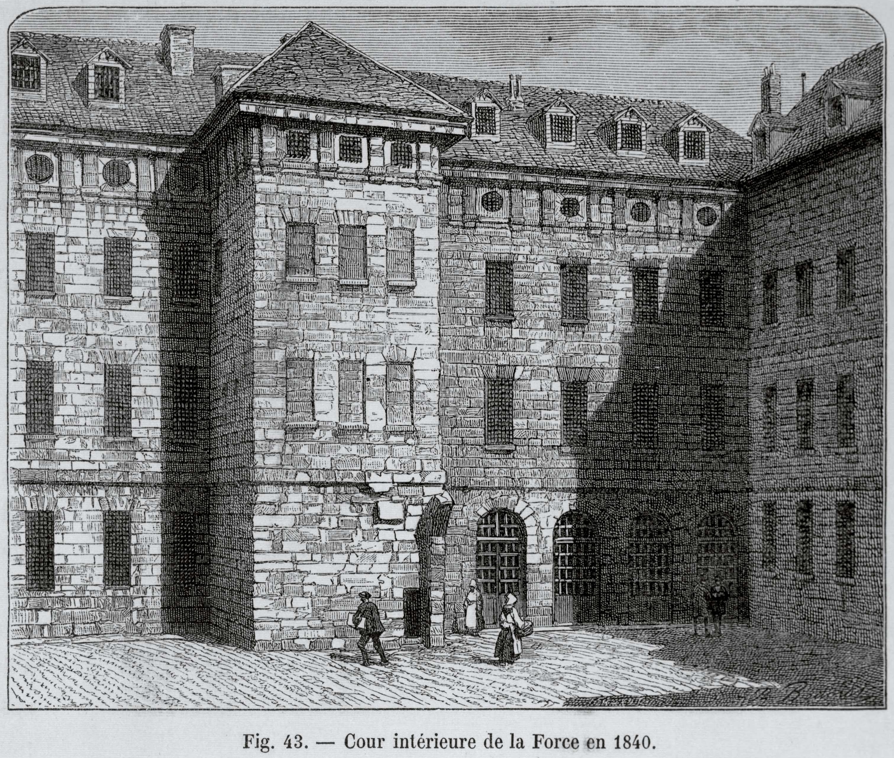 The prison located in the Hôtel de la Force, rue du Roi-de-Sicile, was established in 1782 following a decision on the part of Louis XVI to improve incarceration conditions. The prison consisted of eight courtyards (one of which is shown here), and six "departments" which divided the prisoners by nature of their crime. One of courtyards is famously known for being the site of the Princesse de Lamballe's violent slaying during the Revolution. The prison was demolished in the late 19th century.